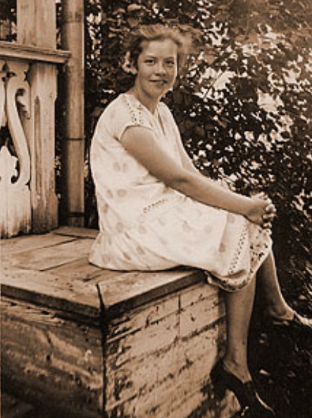 Tyyne-Kerttu Virkki (1907–2000), Finnish handicraft teacher and researcher, editor-in-chief of Omin käsin handicraft magazine